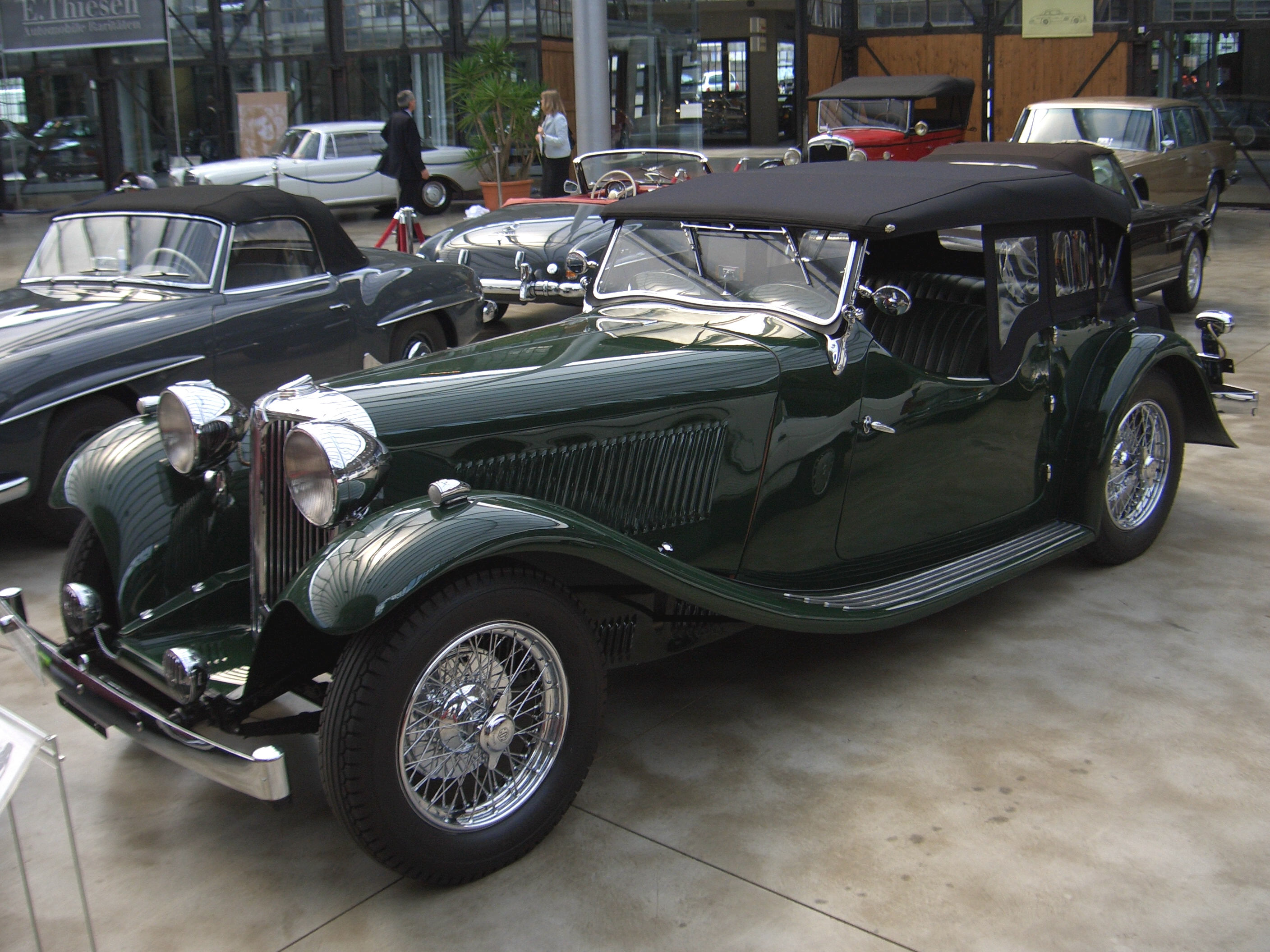 Standard Swallow SS-1 Tourer, 1932-1936, seen at MEILENWERK in Duesseldorf, Germany SS1 tourer manufactured by Swallow Sidecar Company from early 1933 note aftermarket chromed wire wheels and chromed brake drums